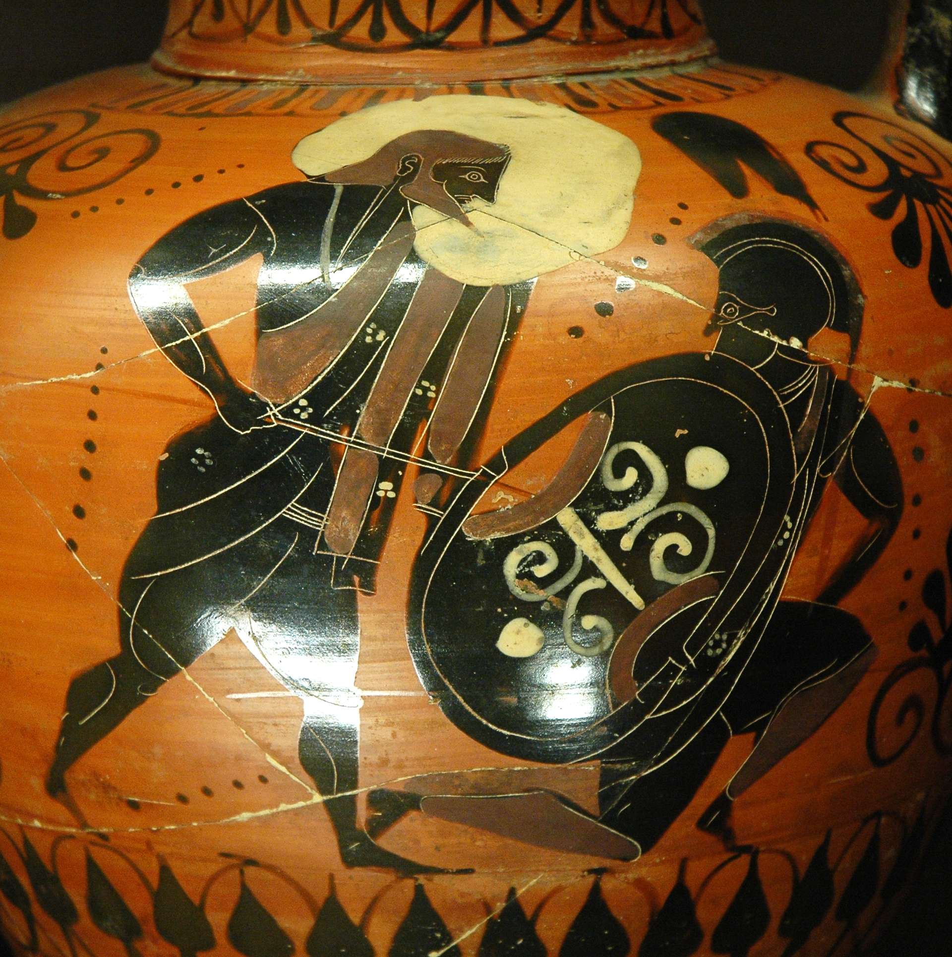 Poseidon fighting the Giant Polybotes during the Gigatomachy. Side A from an Attic black-figure neck amphora, ca. 540 BC–530 BC.